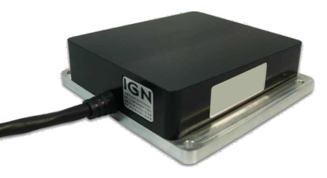 Geocube Ophelia